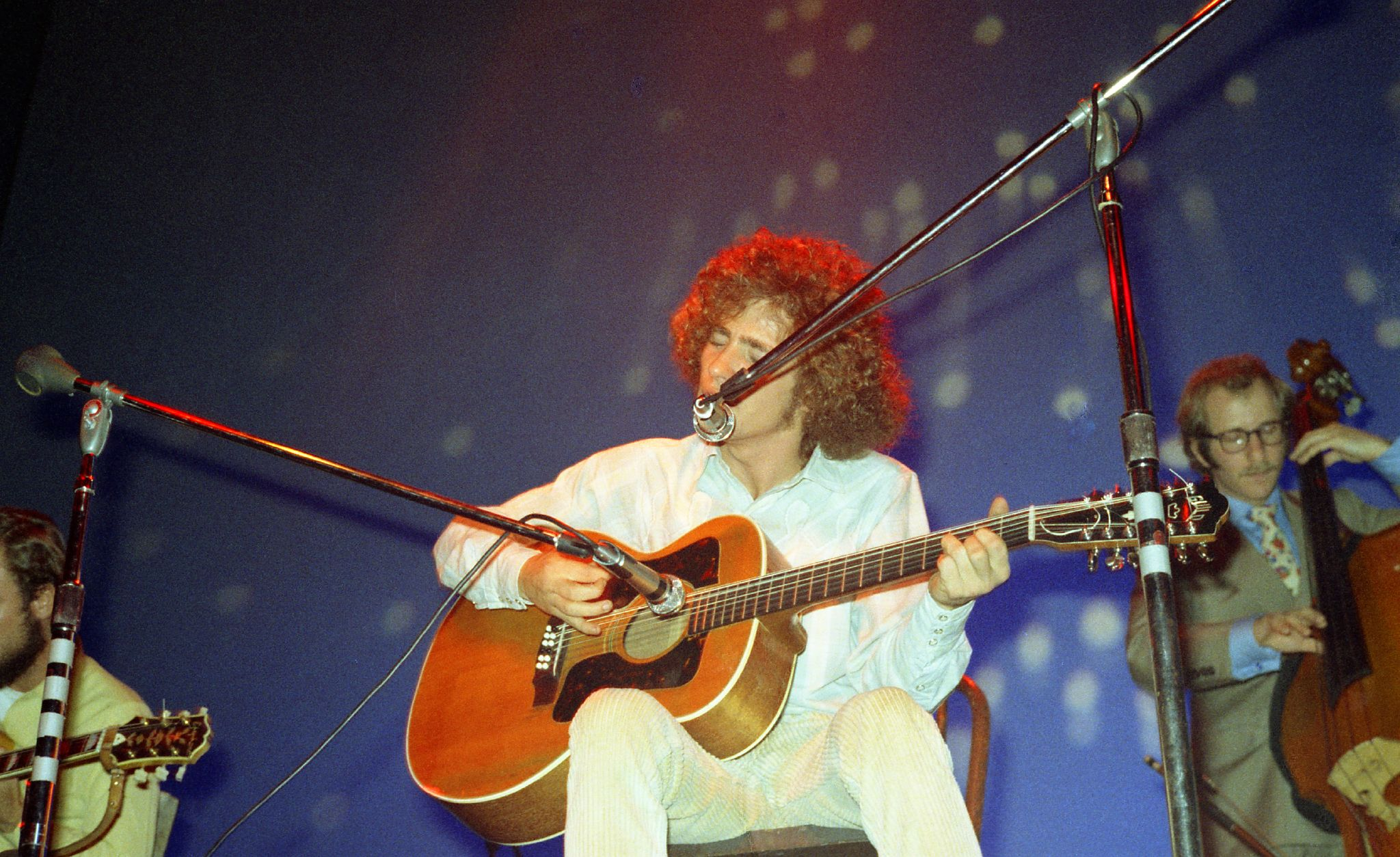 Tim Buckley, Fillmore East, October 19, 1968